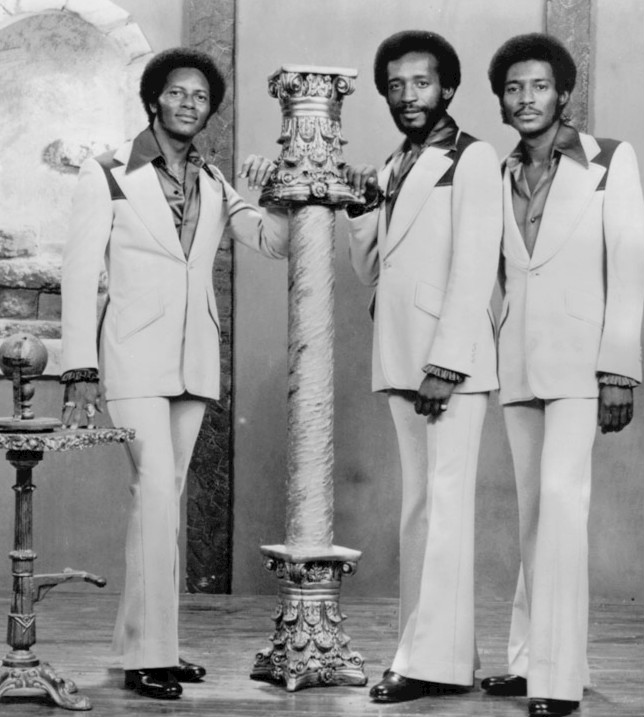 Photo of the vocal group The Imperials. The group was known for providing back up vocals for Little Anthony and the act was called Little Anthony and the Imperials. From left: Harold Jenkins, Clarence Collins and Bobby Wade.